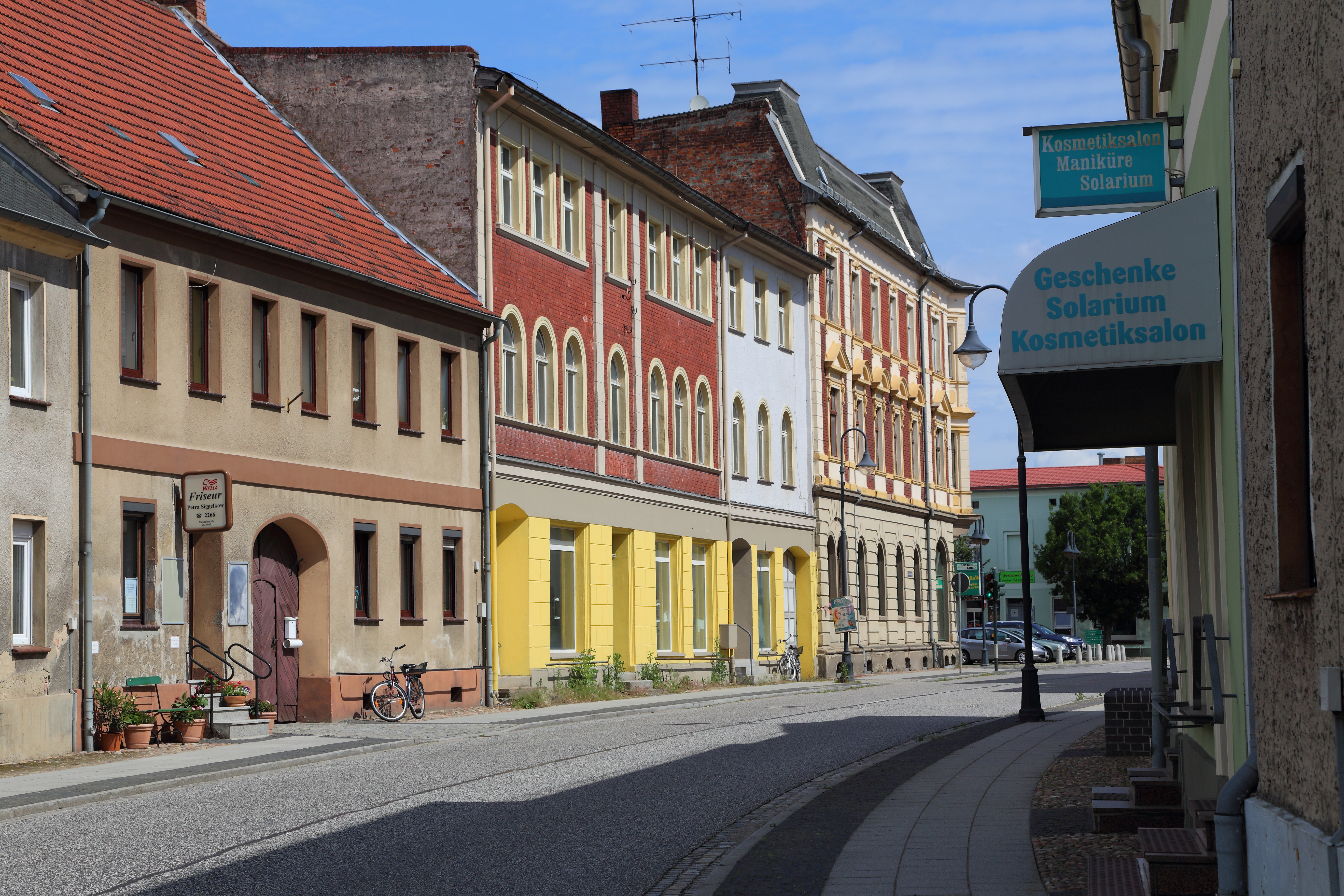 View of Cottbus Street (Cottbuser Straße) in Lieberose, Landkreis Dahme-Spreewald, Brandenburg, Germany.